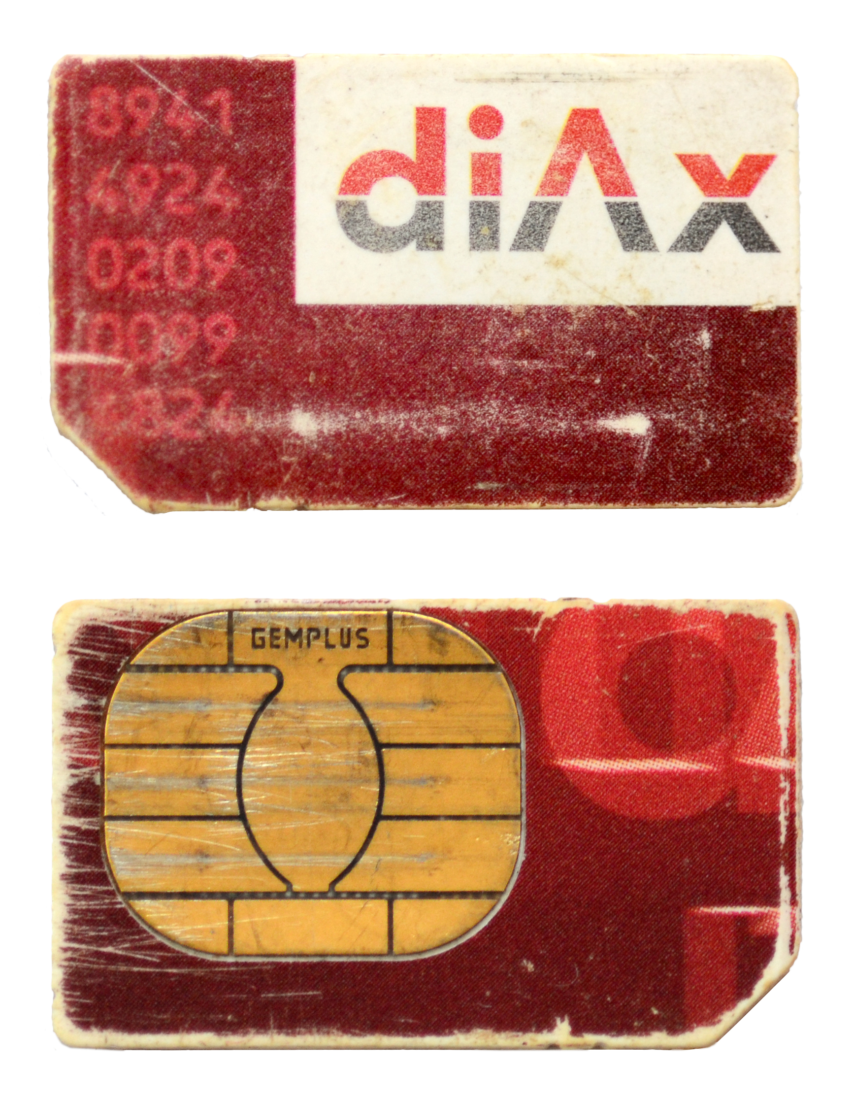 Swiss DiAx SIM card (front and back view)